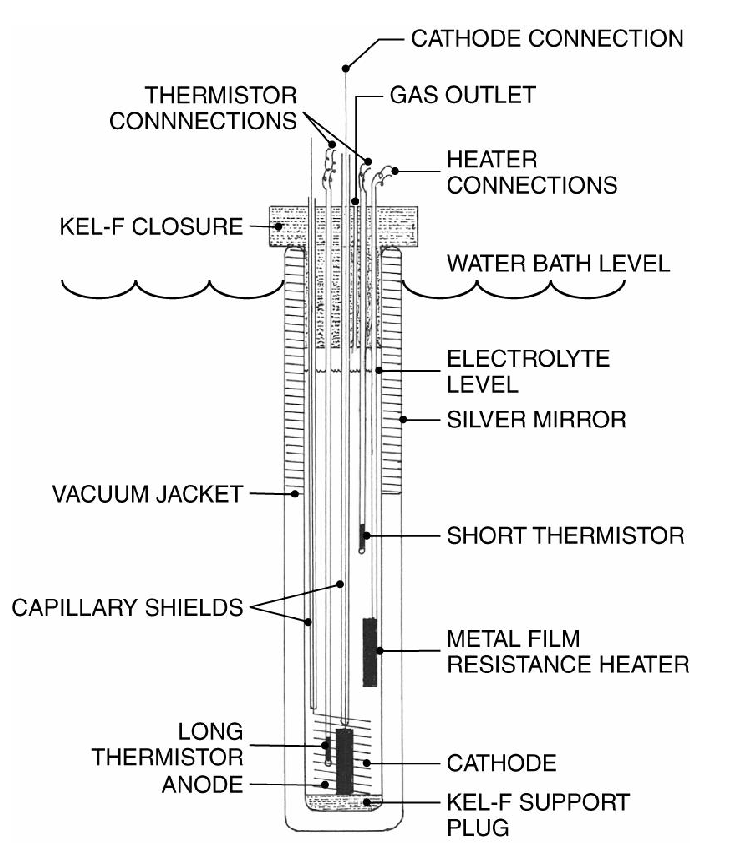 "Fig. 1. Silvered Dewar calorimeter" from Szpak & Mosier-Boss, "Thermal and Nuclear Aspects of the Pd/D2 System: Volume 1", TR1862, Space and Naval Warfare Systems Center, San Diego. authors: S. Szpak & P. A. Mosier-Boss pg. 43